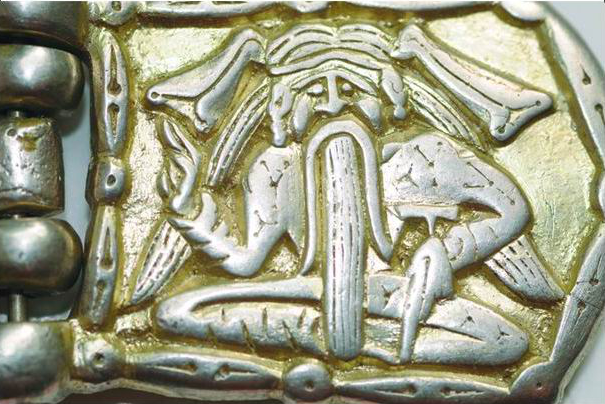 A fastener from the 9th century (a proto-Hungarian finding from the Hungarian "Etelkoz"), unearthed in Kirovohrads'ka oblast, Ukraine